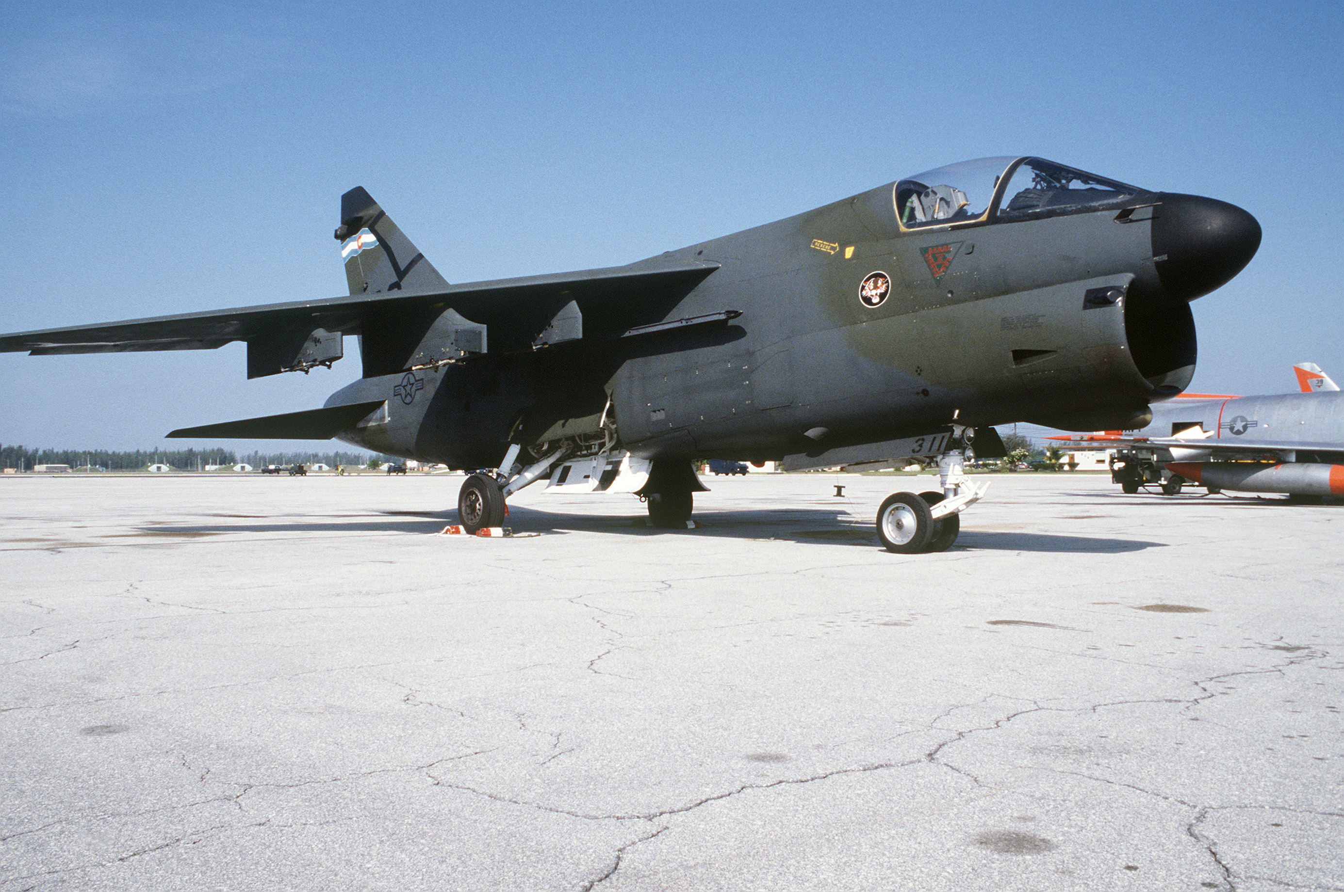 A U.S. Air Force Ling-Temco-Vought A-7D-10-CV Corsair II (s/n 71-0311) from the 120th Tactical Fighter Squadron, 140th Tactical Fighter Group, Colorado Air National Guard, awaits refueling on the flight line at Homestead Air Force Base, Florida (USA), on 9 January 1986. 1972: Aircraft delivered to 354th Tactical Fighter Wing, Myrtle Beach AFB, SC (c/n D-222) Deployed to Korat RTAFB, Thailand, Oct 1972; Transferred to 388th Tactical Fighter Wing/3d TFS, Mar 1973 Transferred to 120th Tactical Fighter Squadron, CO Air National Guard, 1975 to AMARC as AE0094 Dec 6, 1991 Disposition: October 1997 / To Fritz Enterprises, Taylor, MI. (Actually to HVF West yard, Tucson). Scrapped.